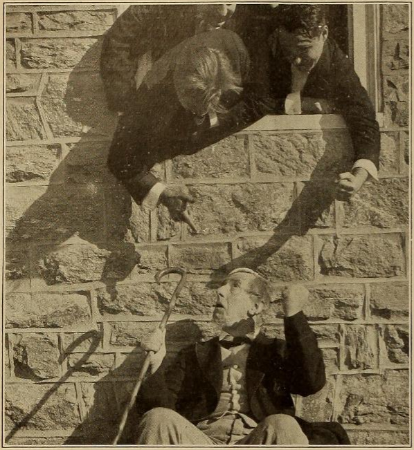 Still from 1915 silent film "The College Widow". Appeared in May 22, 1915 issue of Motography, p. 830 with caption "One of the points where they laugh in Lubin's "The College Widow." "